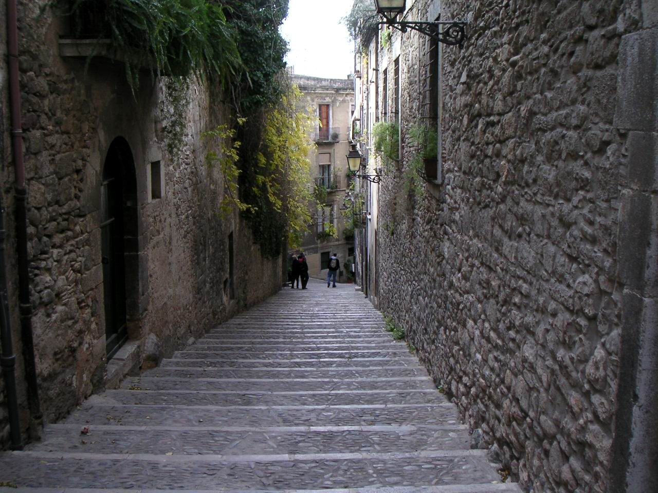 The Jewry in Girona